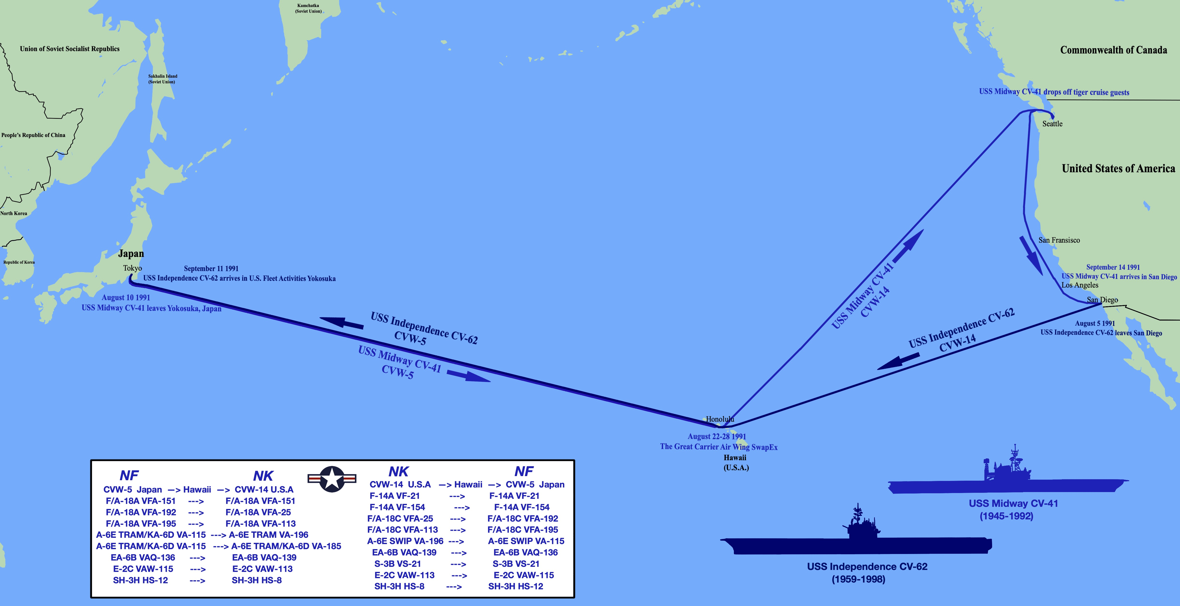 This map details the change in Carrier Air Wing 5 in 1991 when USS Midway and USS Independence swaped aircraft and roles. Note that the Soviet Union was around in 1991 and due to that has been displayed by that name on the map. Information from Gonavy.jp, and